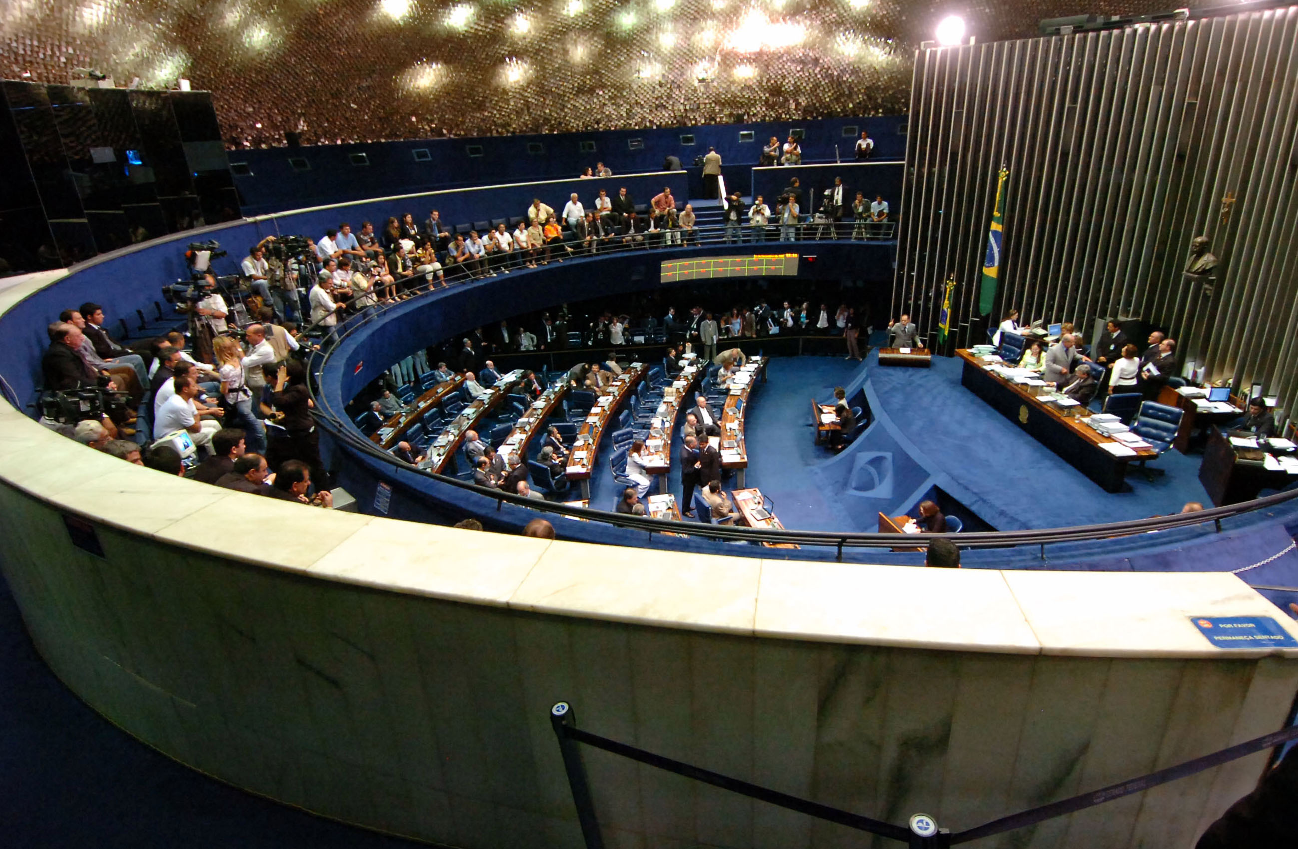 Imagem de National Congress building, Brasília